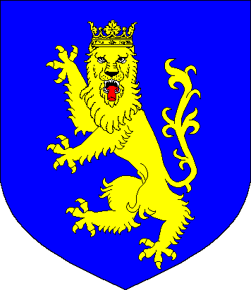 Coat of arms of the noble families "Schwarzburg" and "Käfernburg" / "Kevernburg"